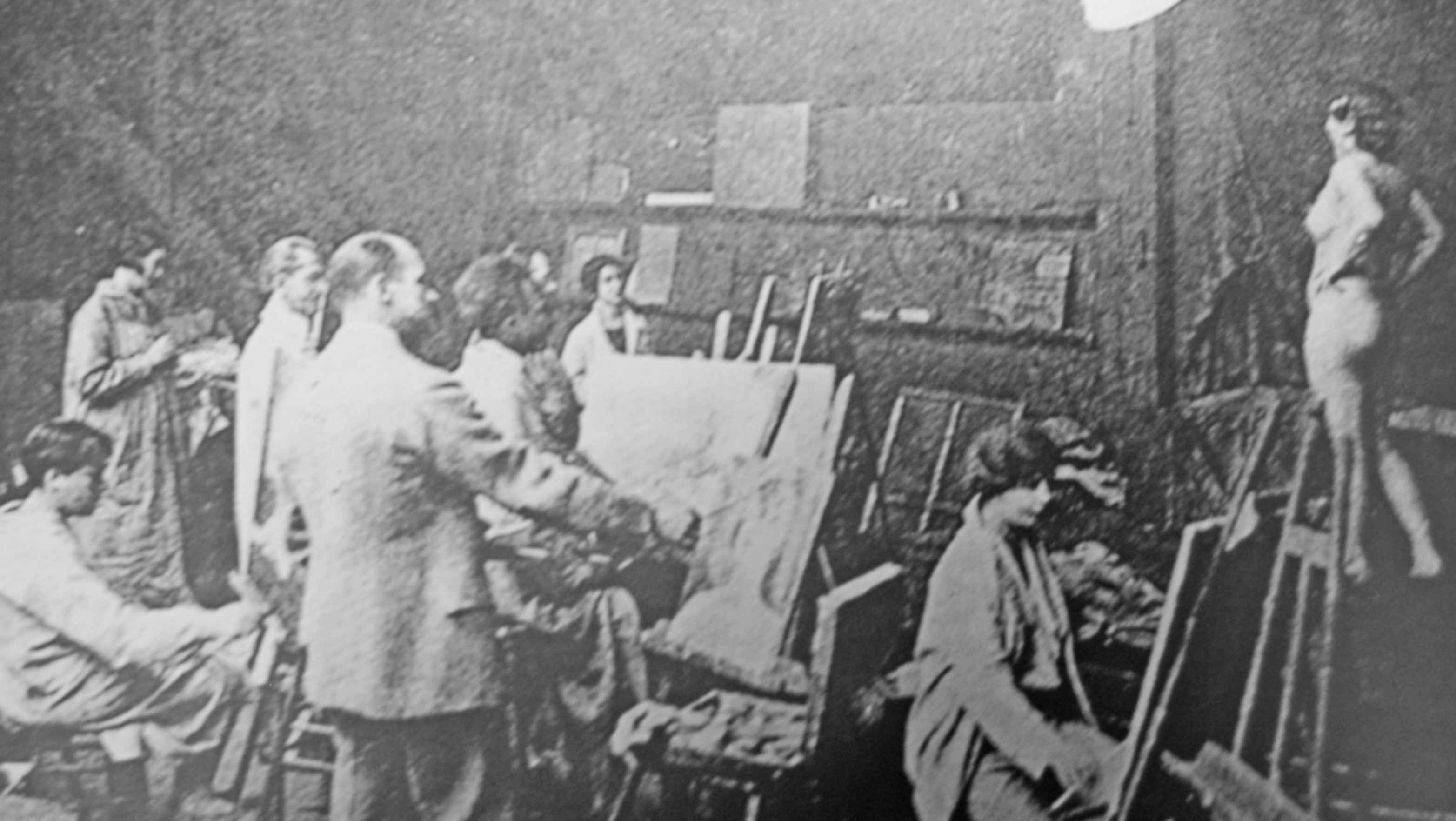 Image of the Academie Colarossi in paris at Rue grand Chaumiere, Montparnasse circa 1908.